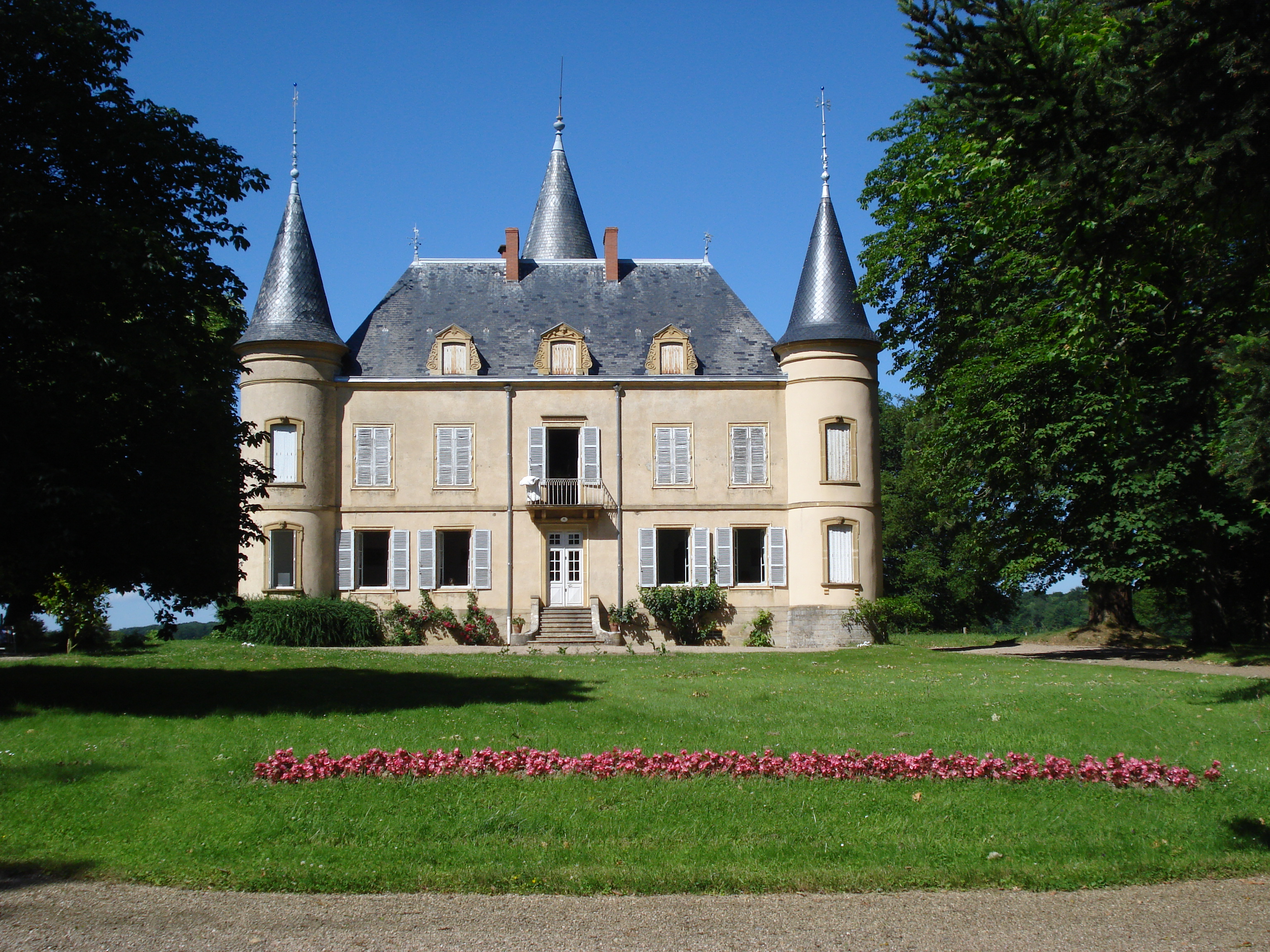 Château de Clessy, Saône-et-Loire, France.